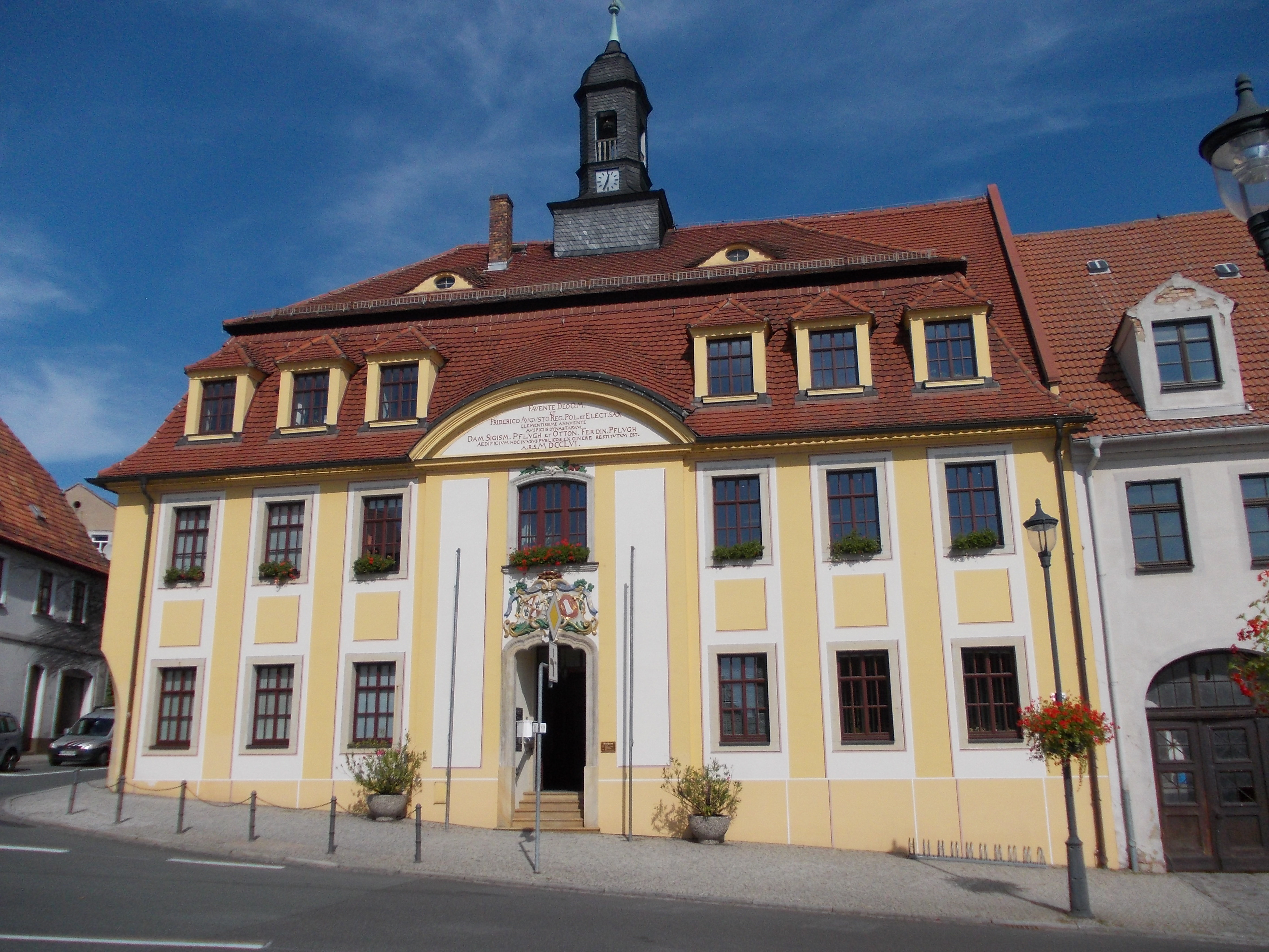 Town hall in Strehla (Meissen district, Saxony)